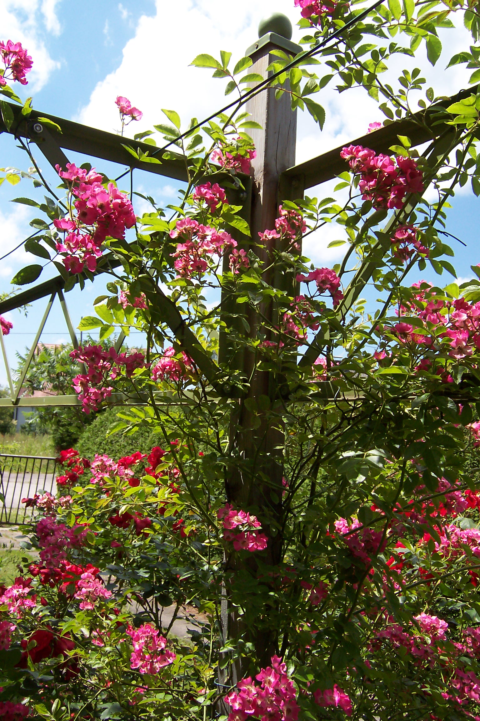 Rosa 'Maria Lisa' in Grafrath/Germany